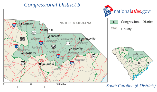 The map is from , specifically SC05_109.gif.